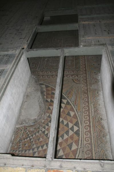 For more pictures and videos of Israel, please visit here. Constantine's 4th century mosaic floor rediscovered in 1934 in the Church of the Nativity (Basilica of the Nativity).